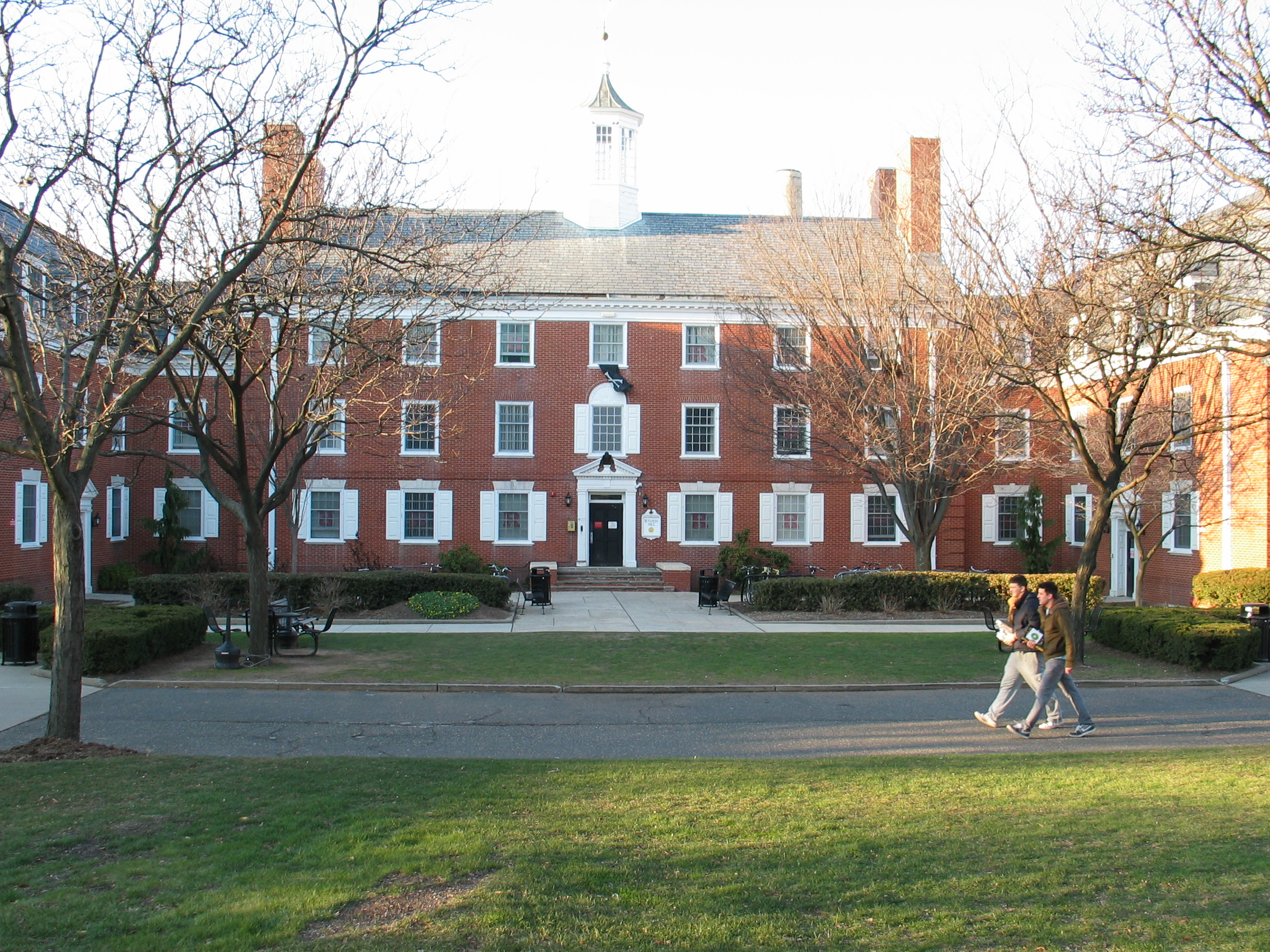 Demarest Hall, College Avenue campus, Rutgers University